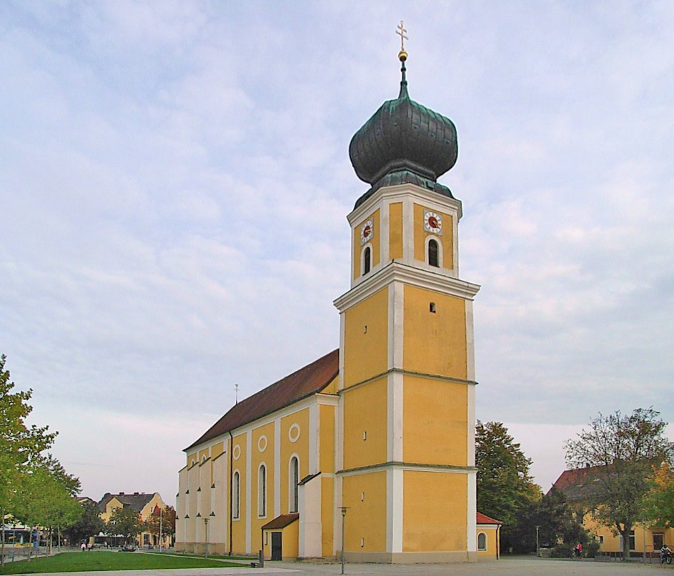 Pocking, St Ulrich Parish Church from north-west.